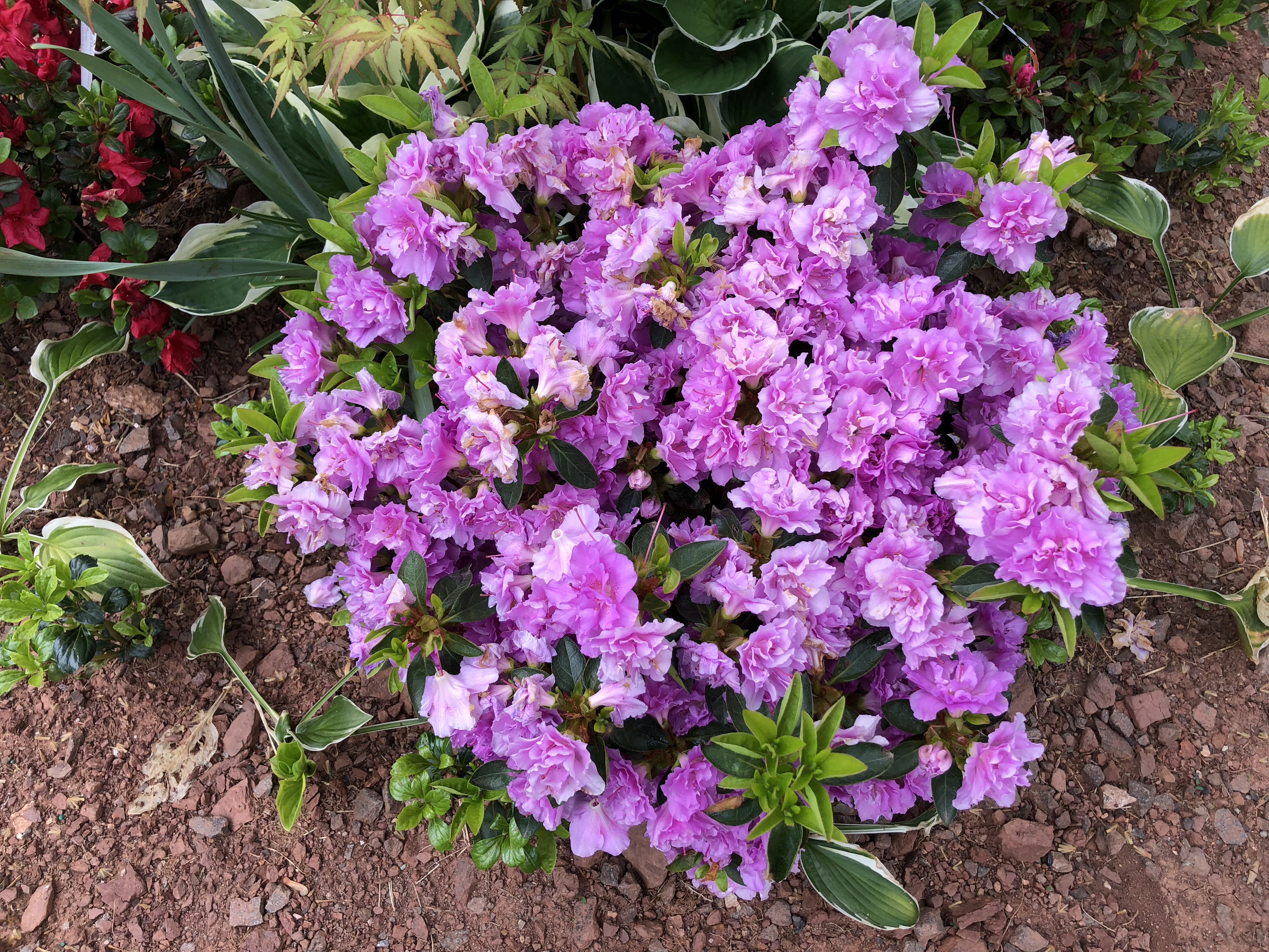 Elsie Lee Azalea blooming along Tranquility Court in the Franklin Farm section of Oak Hill, Fairfax County, Virginia